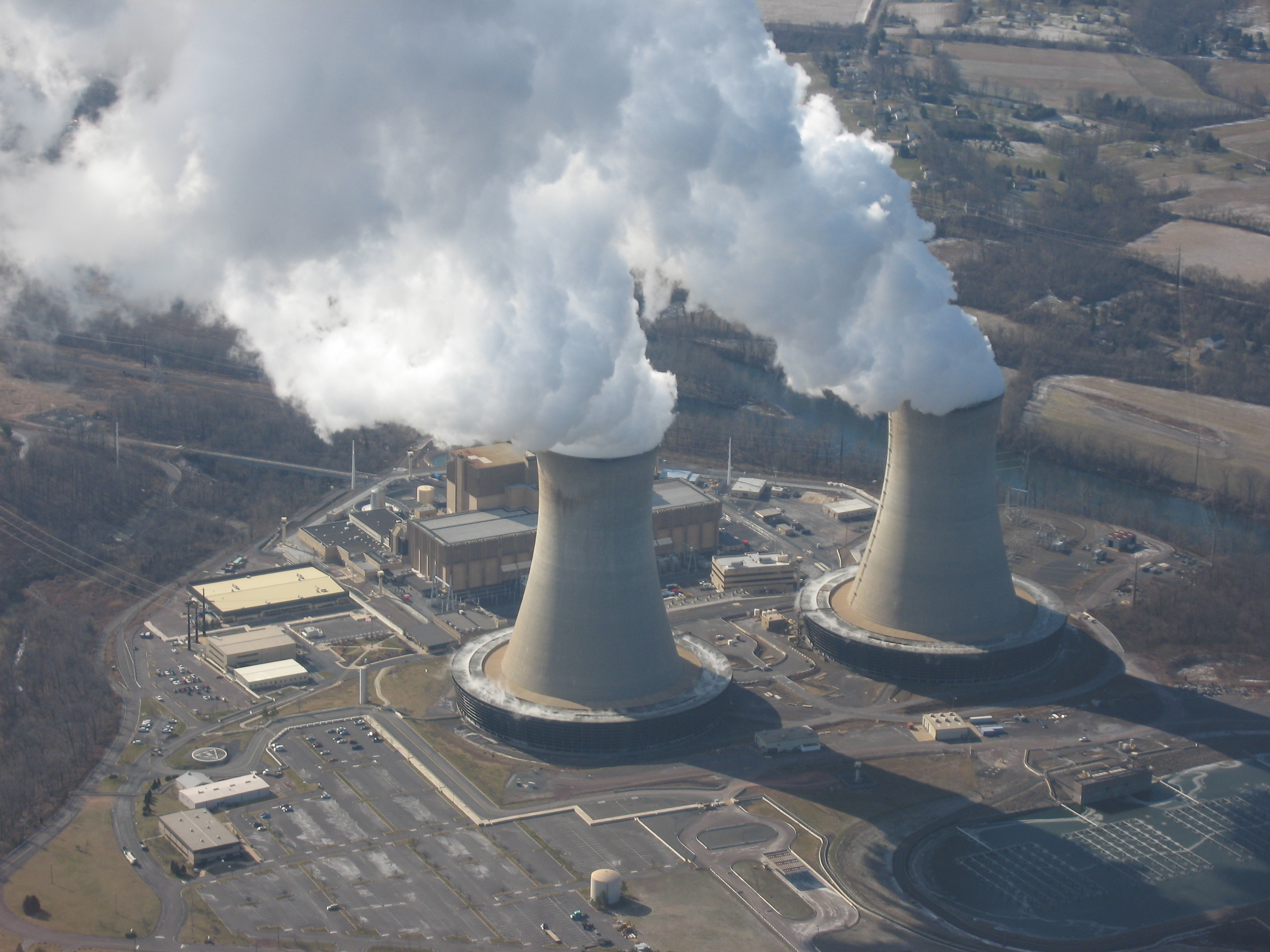 Aerial photo of nuclear power plant in Limerick, Pennsylvania